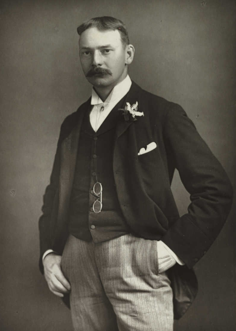 By William and Daniel Downey English writer, dramatist and wit, Jerome K. Jerome (1859-1927), was most famed for his comic novel, Three Men and a Boat (1889). This photograph appears in 'The Cabinet Portrait Gallery' series of celebrity portraits and biographies published in the 1890s. The series includes royalty, actors, academics and authors.